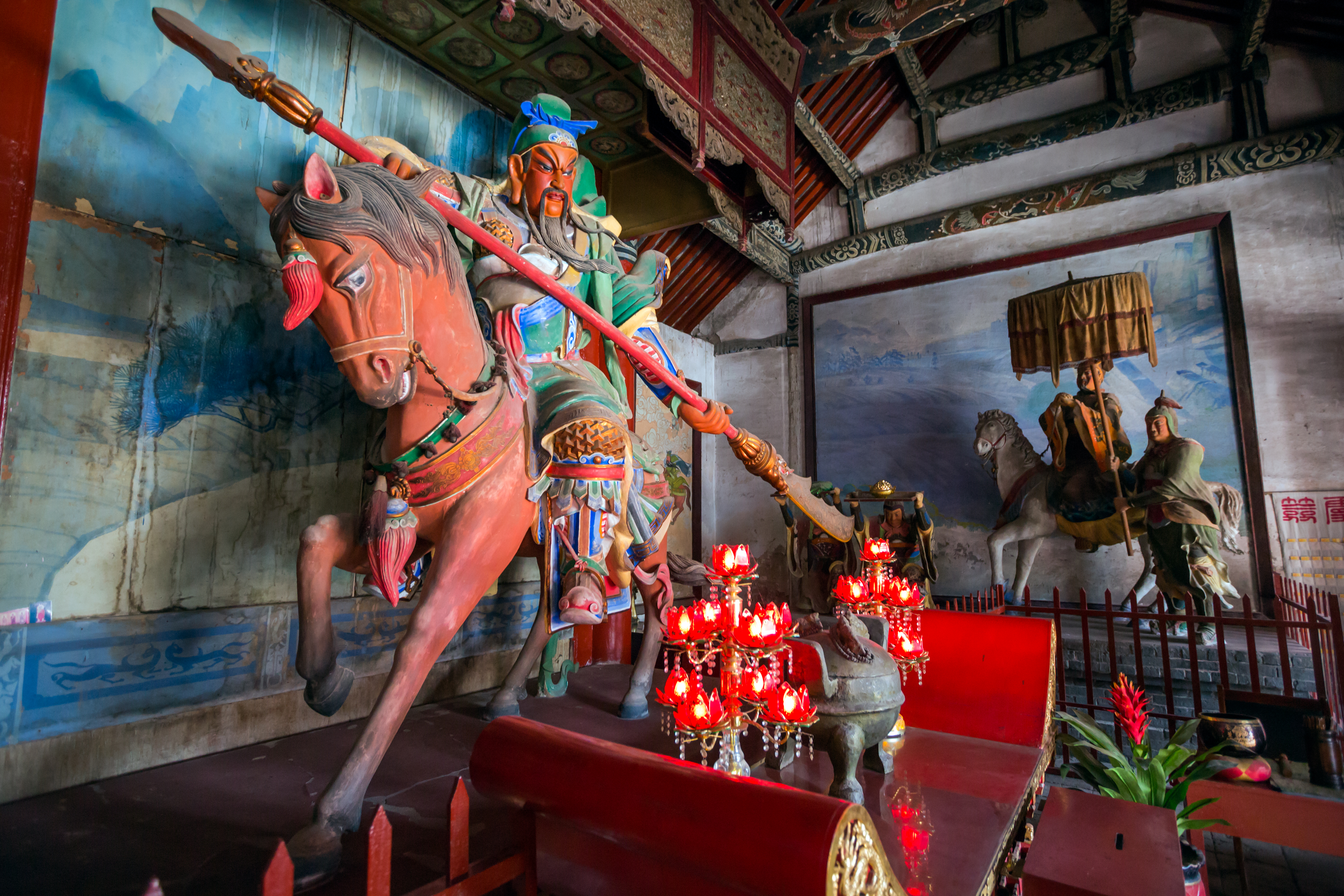 Guan Yu statue